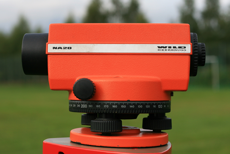 A Wild NA20 level